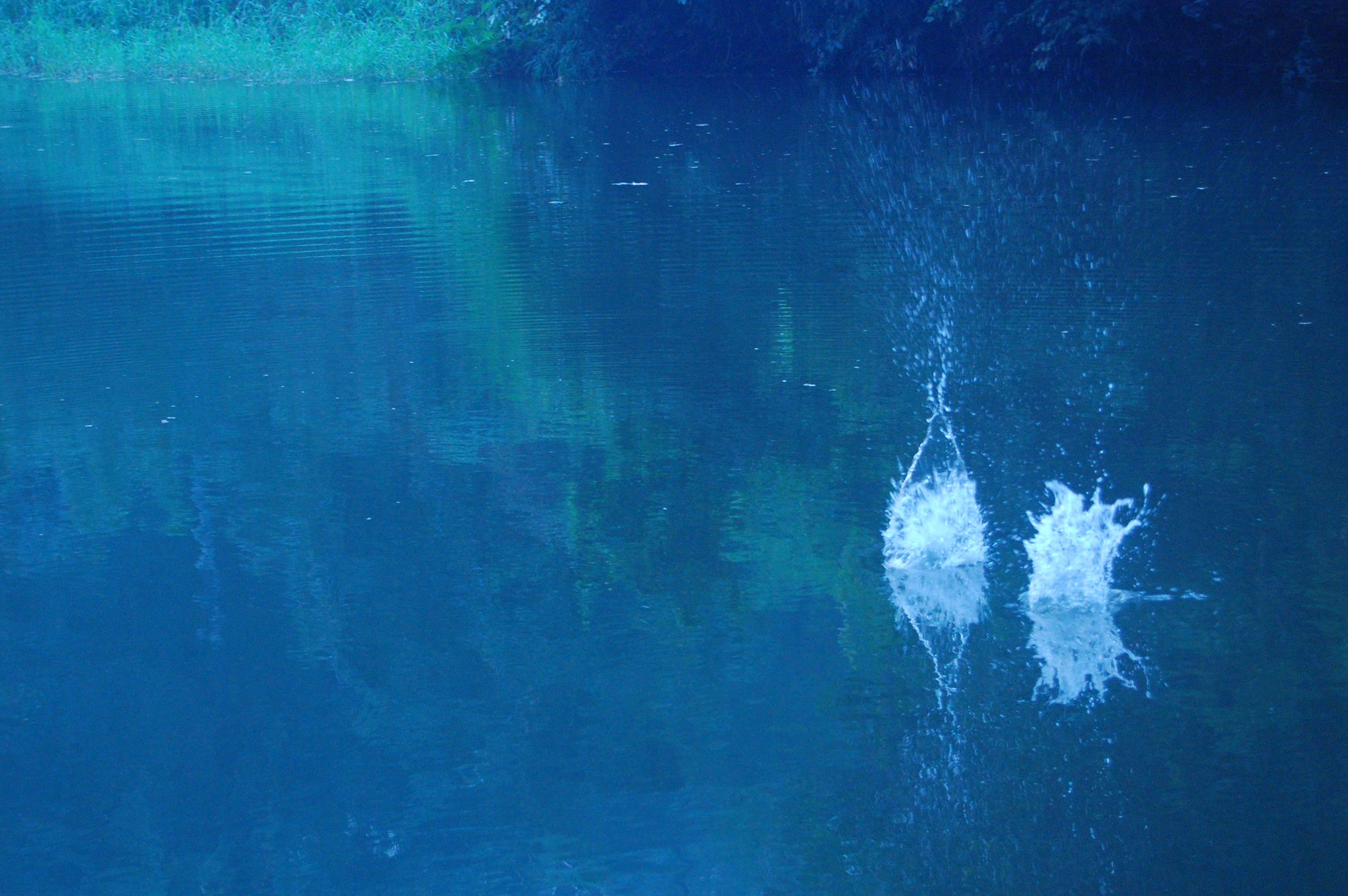 Misty boating lake at SGNP